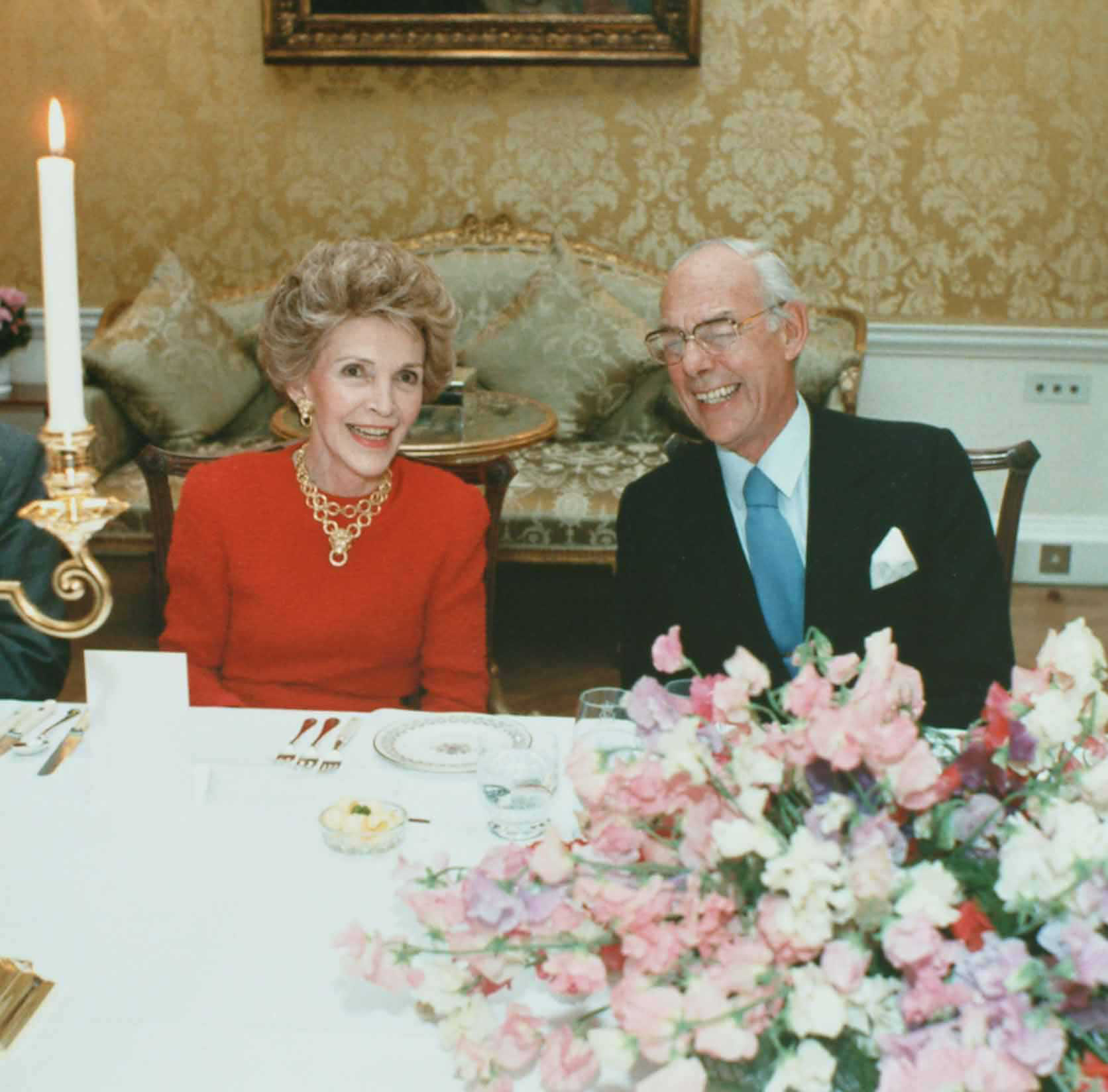 Denis Thatcher, husband of Prime Minister Margaret Thatcher, laughs at a Banquet with Nancy Reagan, wife of President Ronald Reagan.